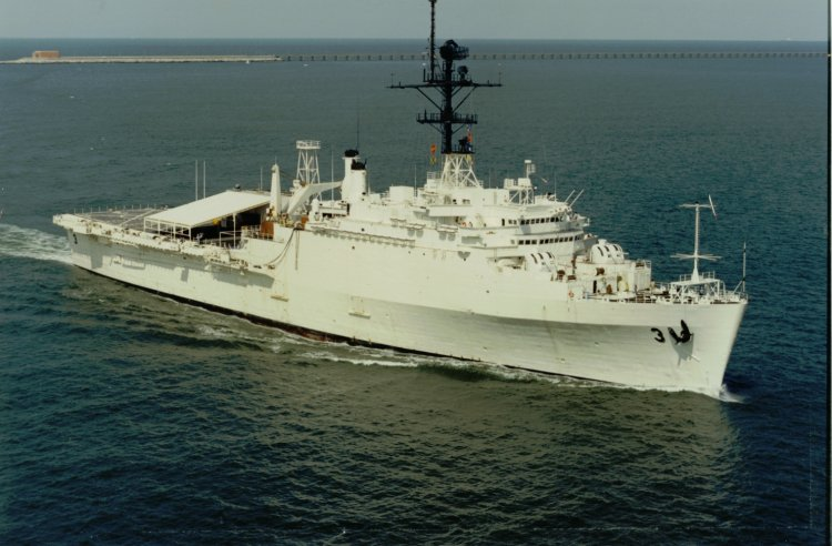 The U.S. Navy command ship USS La Salle (AGF-3) underway in Hampton Roads, circa 1976-1986.